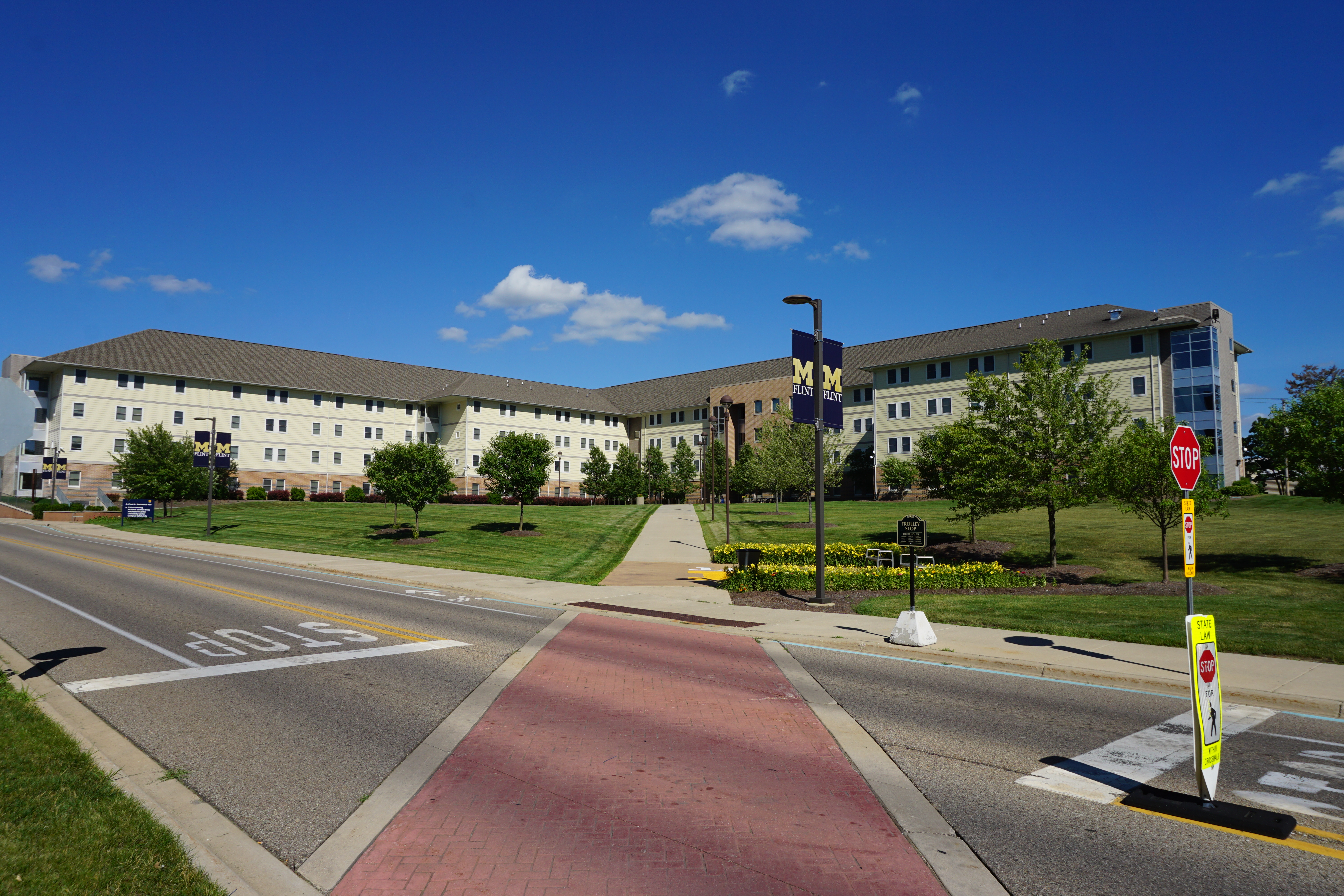 First Street Residence Hall on the campus of the University of Michigan–Flint in Flint, Michigan (United States).